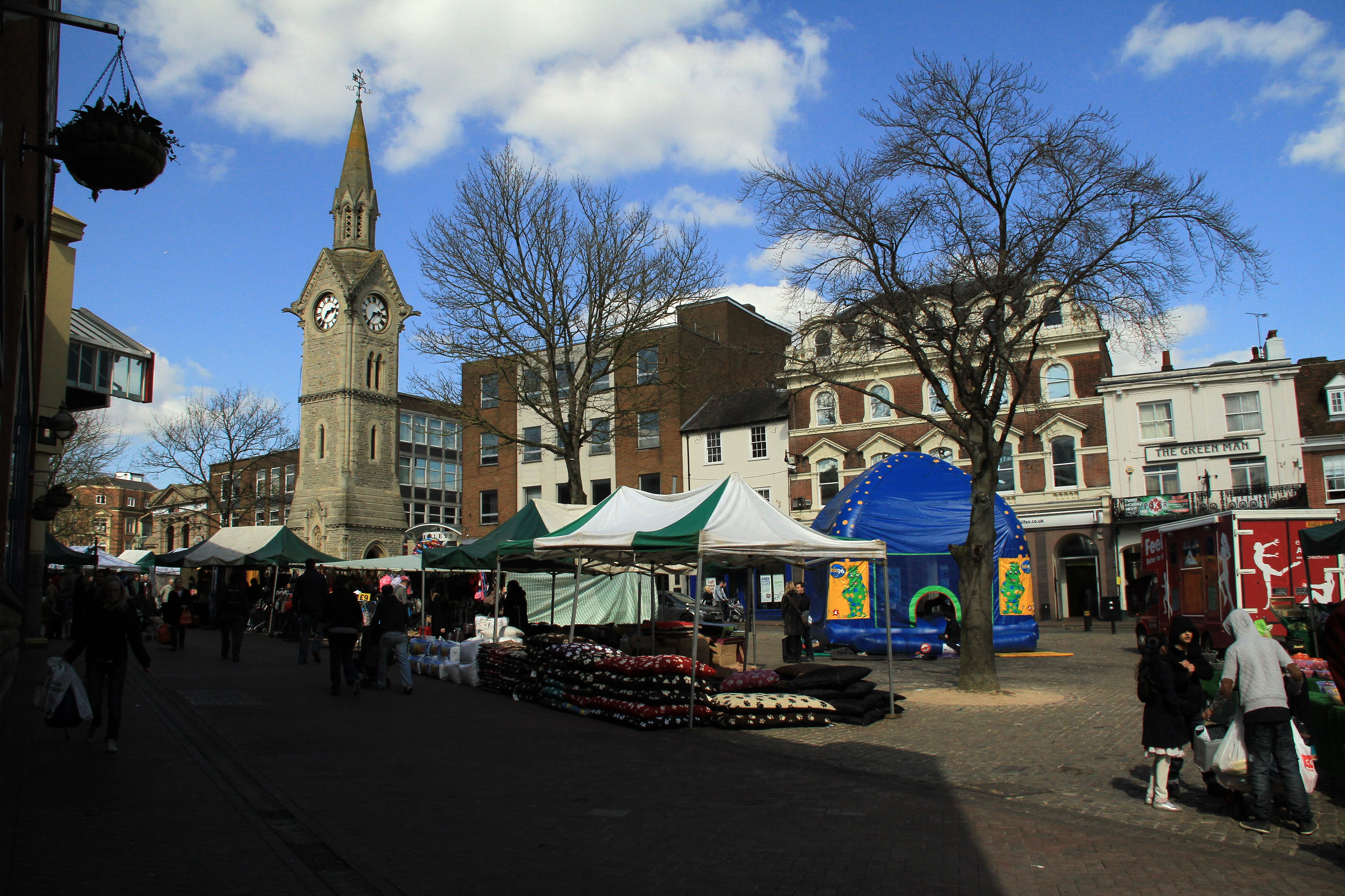 Aylesbury Market Square and Clock Tower